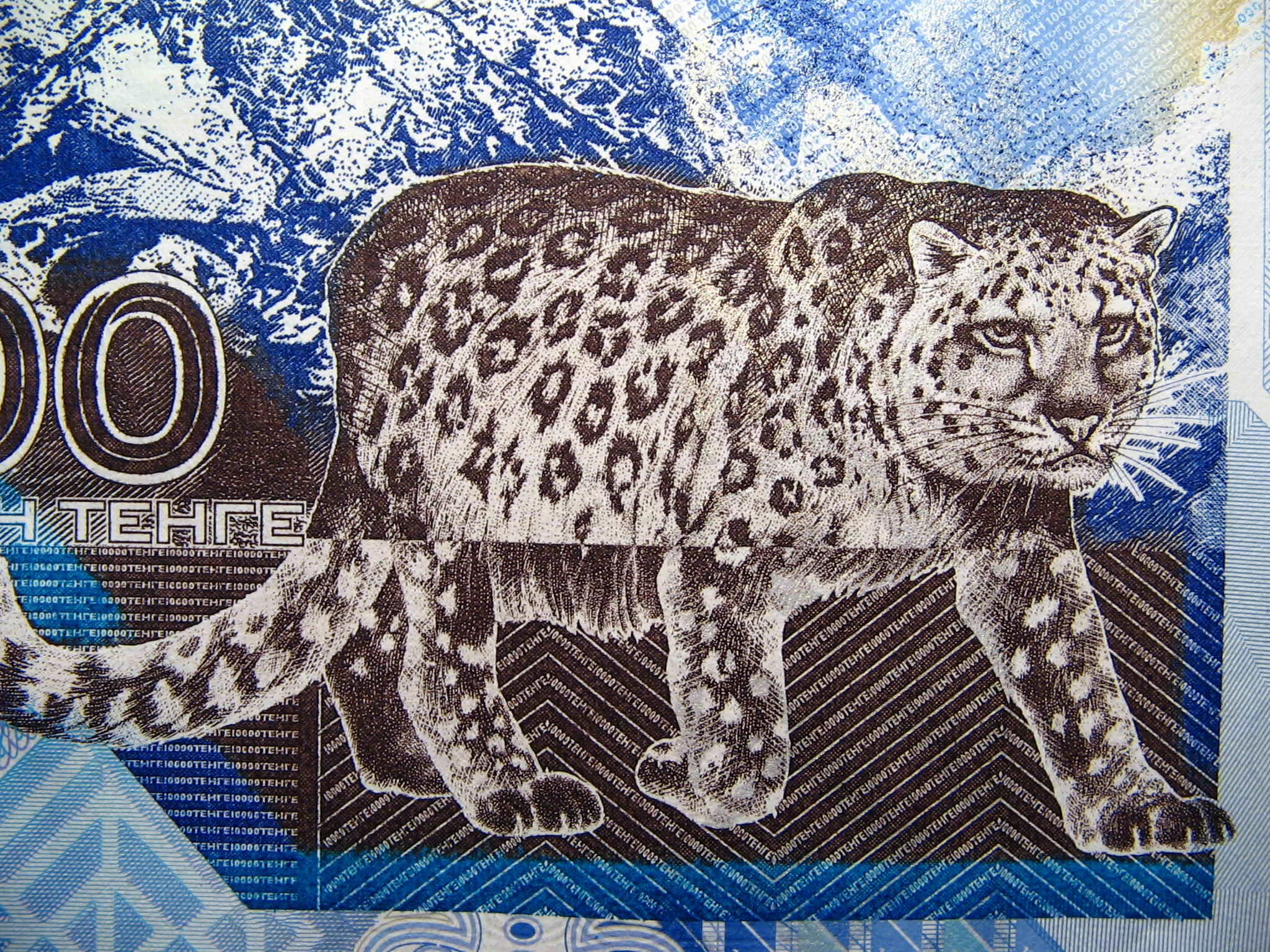 The snow leopard on the reverse side of 10000 tenge banknote (old design, this monetary sign is not in force since 16 November 2007)